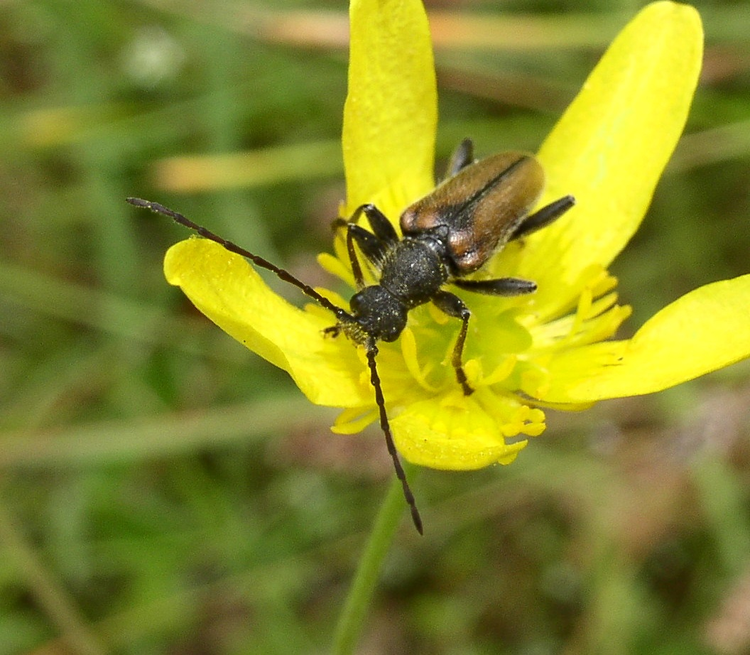 Flower longhorn, Cortodera sp. Salem, Marion County, Oregon, USA.